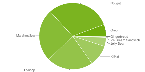 The following chart - presents the prevalence of various Android versions. It is based on the number of Android devices that have accessed the Play Store, with data collected during a 14-day period ending on [see image upload log].